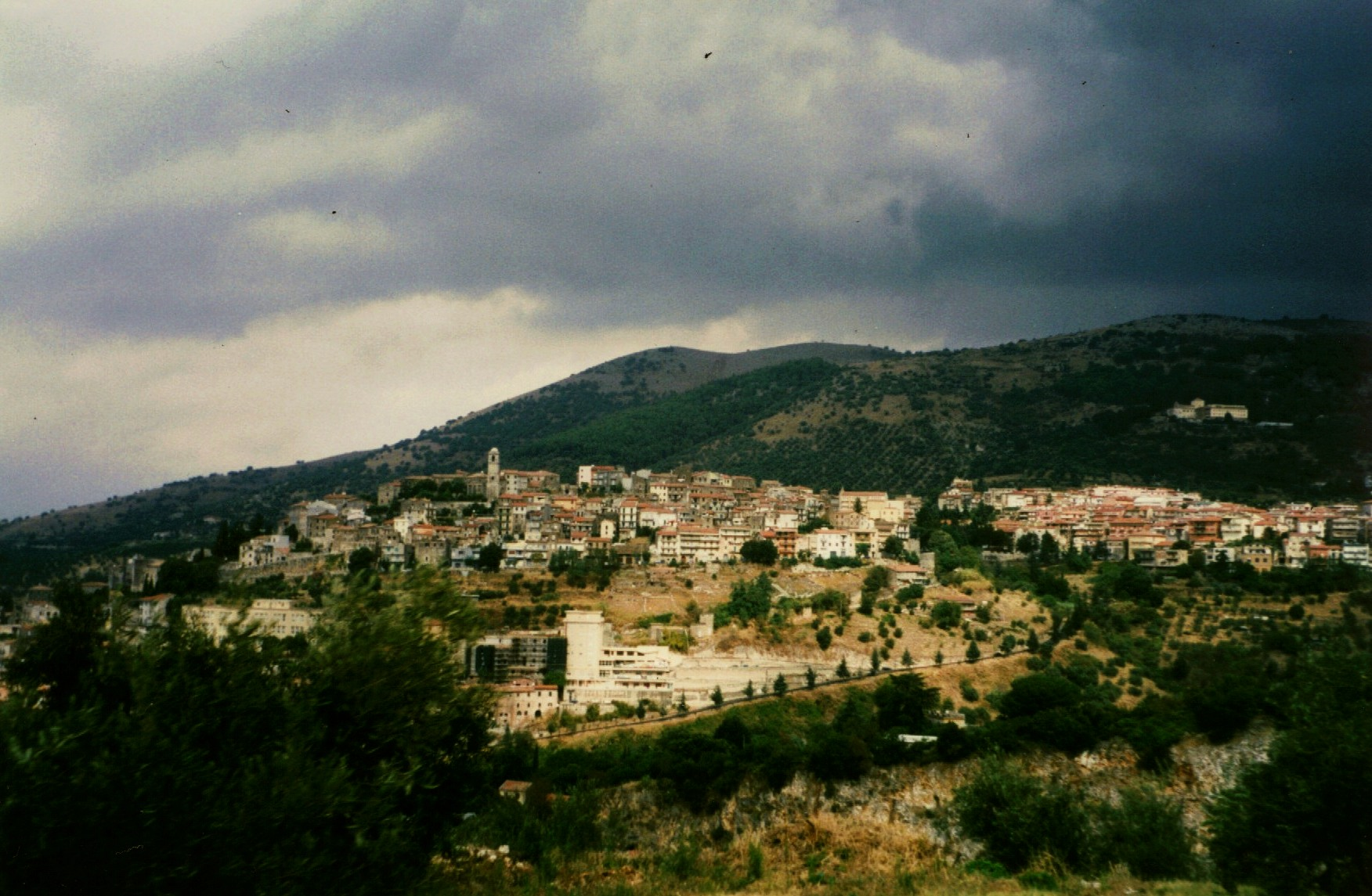 Photo of town centre from a ringing road. The village monastery is visible in the top right of the photo, watching over the town from its elevated perch on the mountain.